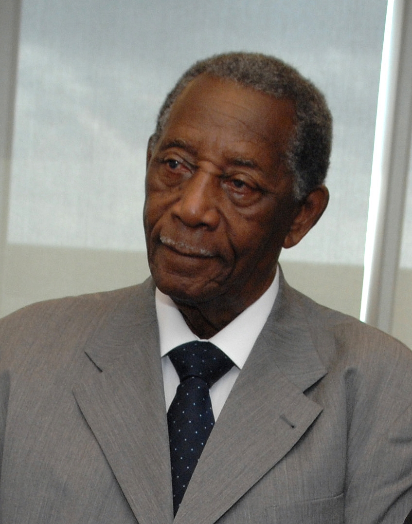 Cropped version: JACKSON, Miss. (Oct. 9, 2009) Secretary of the Navy (SECNAV) the Honorable Ray Mabus speaks with Myrlie Evers-Williams, wife of the late civil rights activist Medgar Evers and brother Charles Evers. Mabus officially announced the future Military Sealift Command dry cargo and ammunition ship Medgar Evers (T-AKE 13) at Jackson State University. (U.S. Navy photo by Mass Communication Specialist 2nd Class Kevin S. O'Brien/Released)